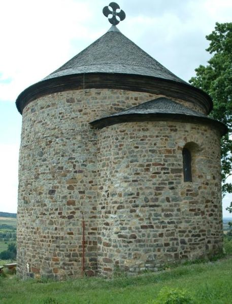 Rotunda of St Peter above Starý Plzenec, Czechia. A view from the east.